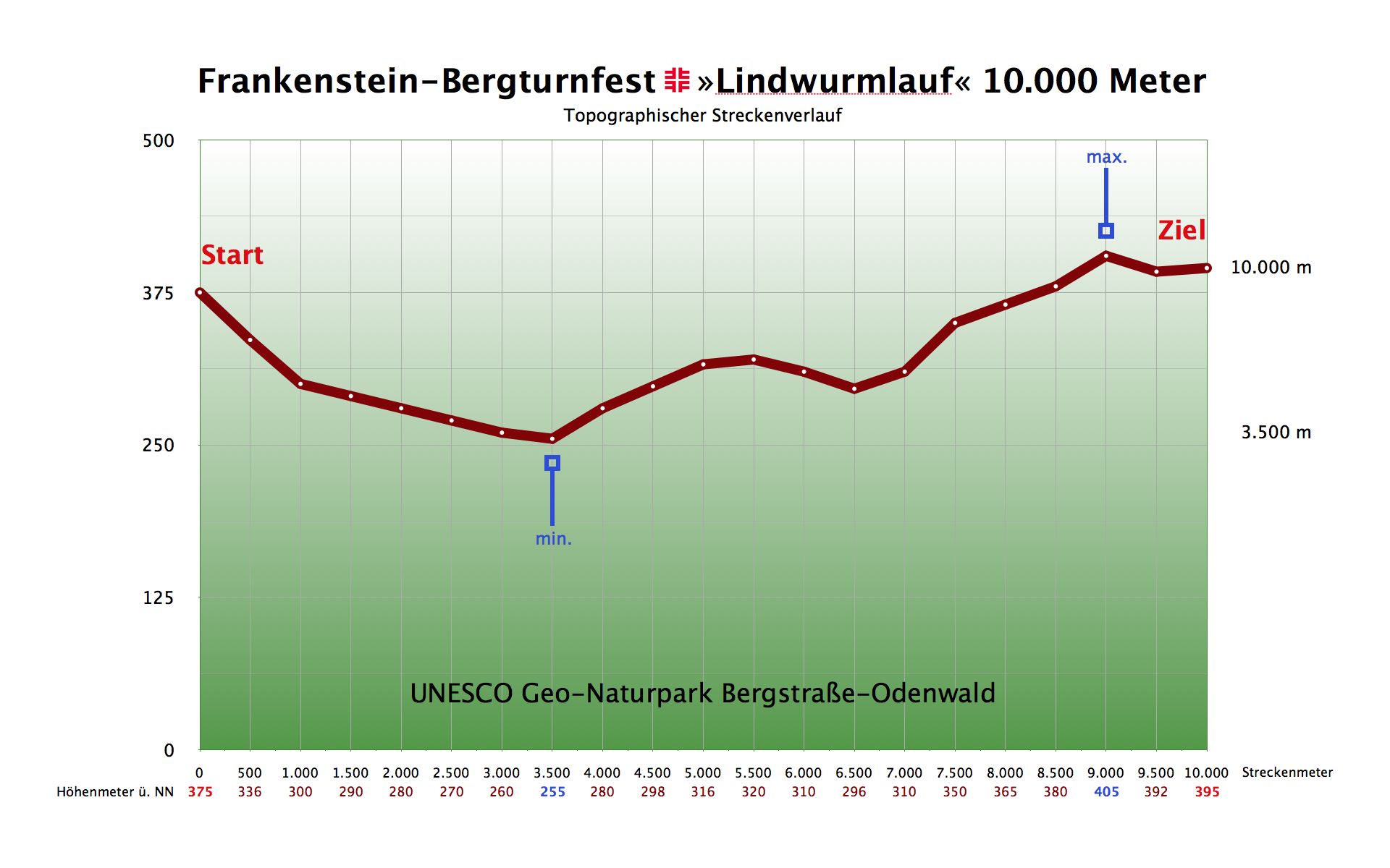 Topographic track profile for Lindwurmlauf of Frankenstein Bergturnfest, Mühltal, Hesse, Germany